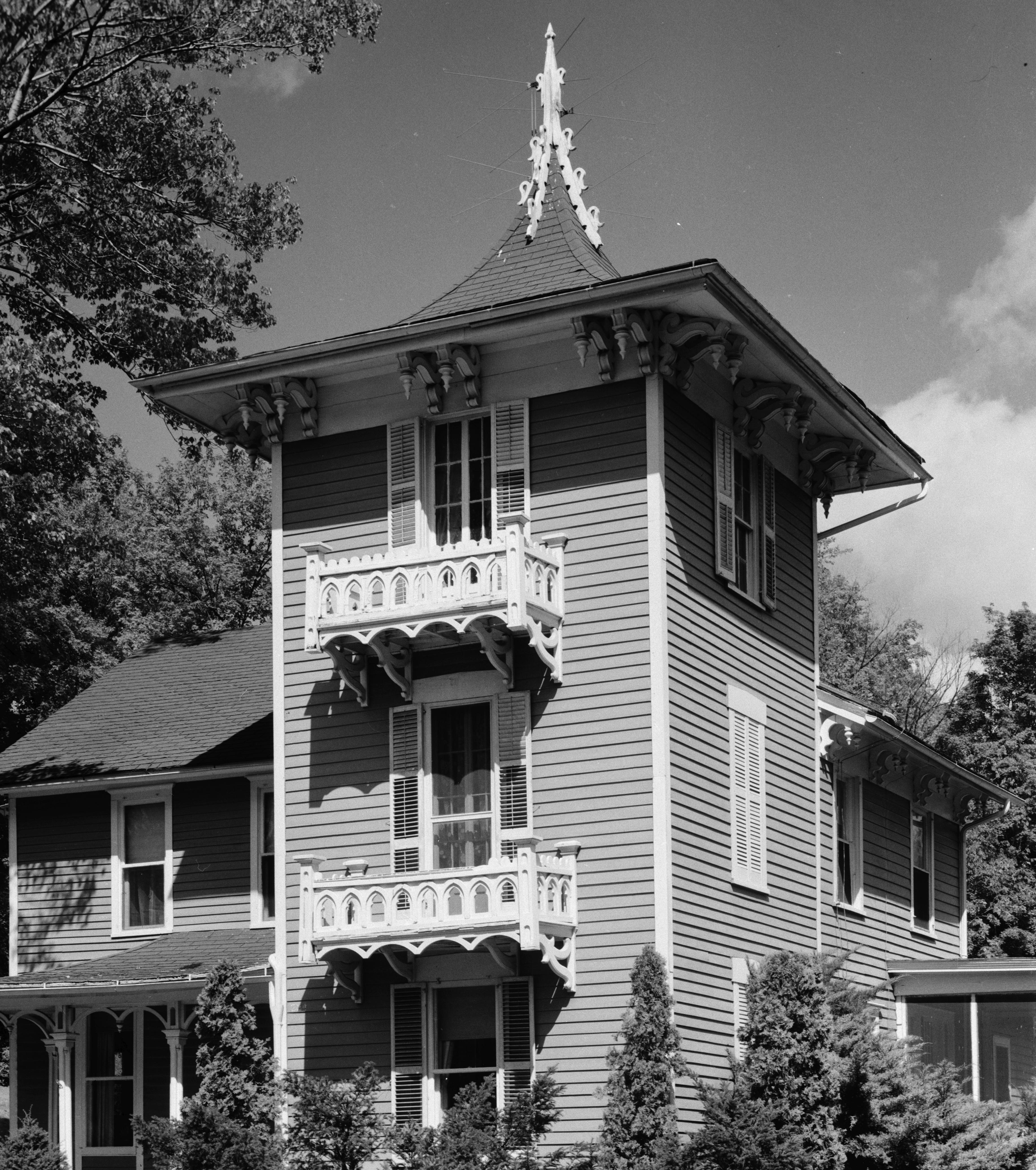 Front and southern side of the Benedict-Joy House, located at 224 N. Kalamazoo Avenue in Marshall, Michigan, United States. Built in 1844, it is listed on the National Register of Historic Places.